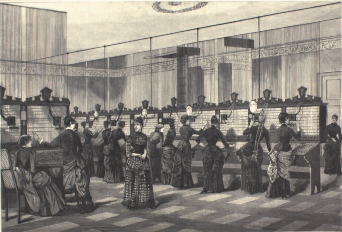 Det københavnske telefonselskabs centralbureau i Vimmelskaftet